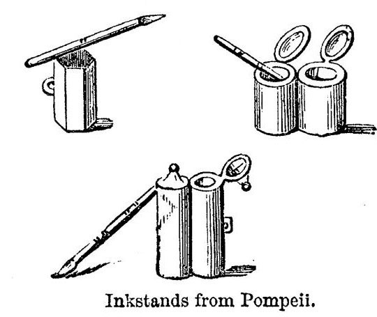 Atramentarium or inkstands from Pompeii.